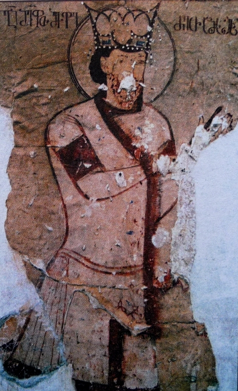 George IV (Lasha), King of Georgia. A fresco from the Bertubani monastery